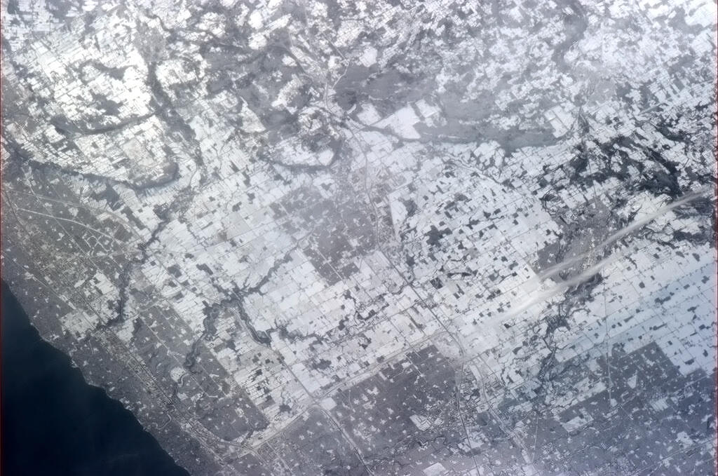 "Milton, Ontario, where I grew up. Looking closely I can see my parents' farm - and Chris Hadfield Public School!" – Caption by astronaut Chris Hadfield on board the International Space Station.